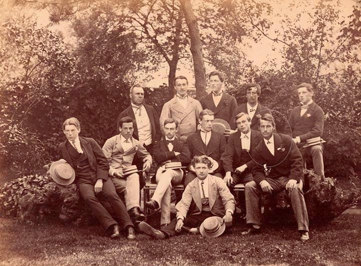 JHA Tremenheere with his team mates in Gloucestershire county cricket club in 1872